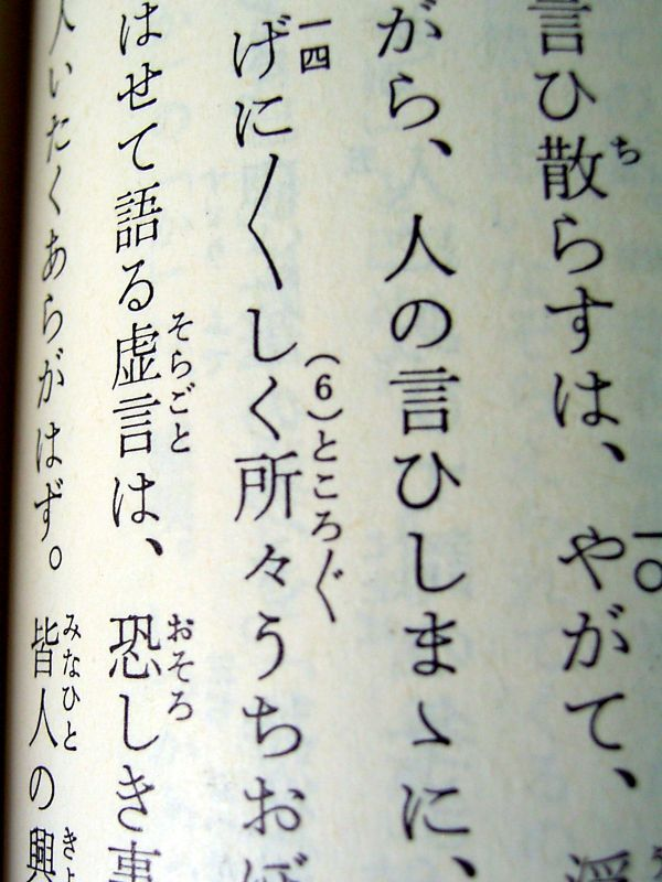 An example of the usage of Japanese iteration marks. Photograph of a printed classical text (Tsurezuregusa in this case).